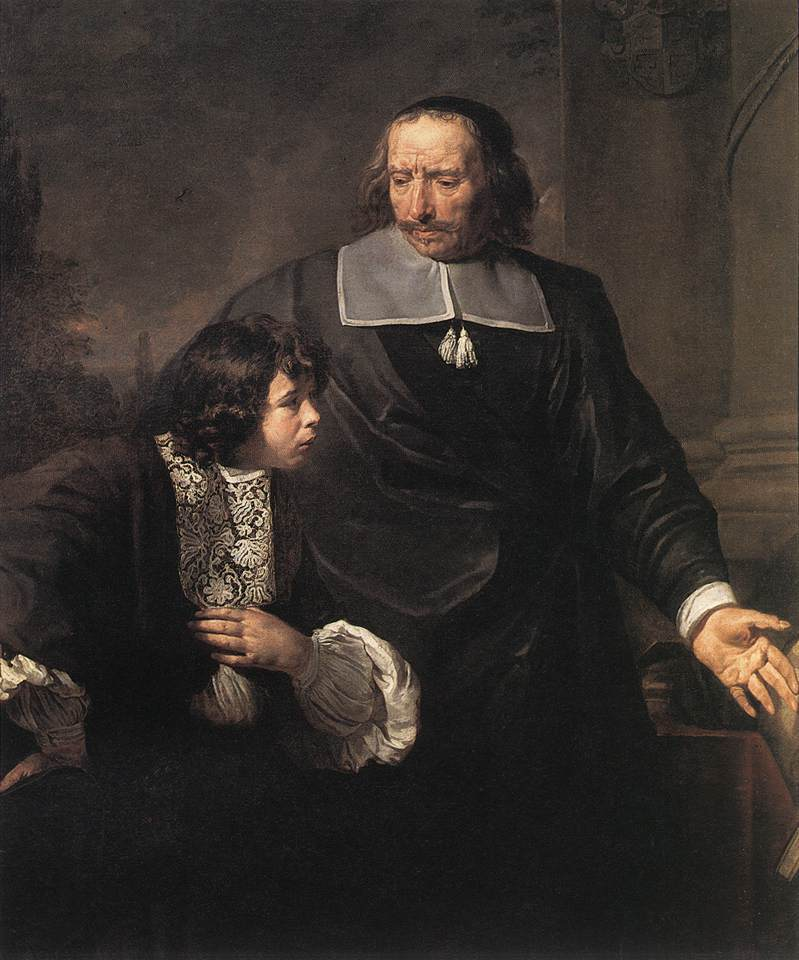 Claude Lefebvre. "A Teacher and his Pupil".